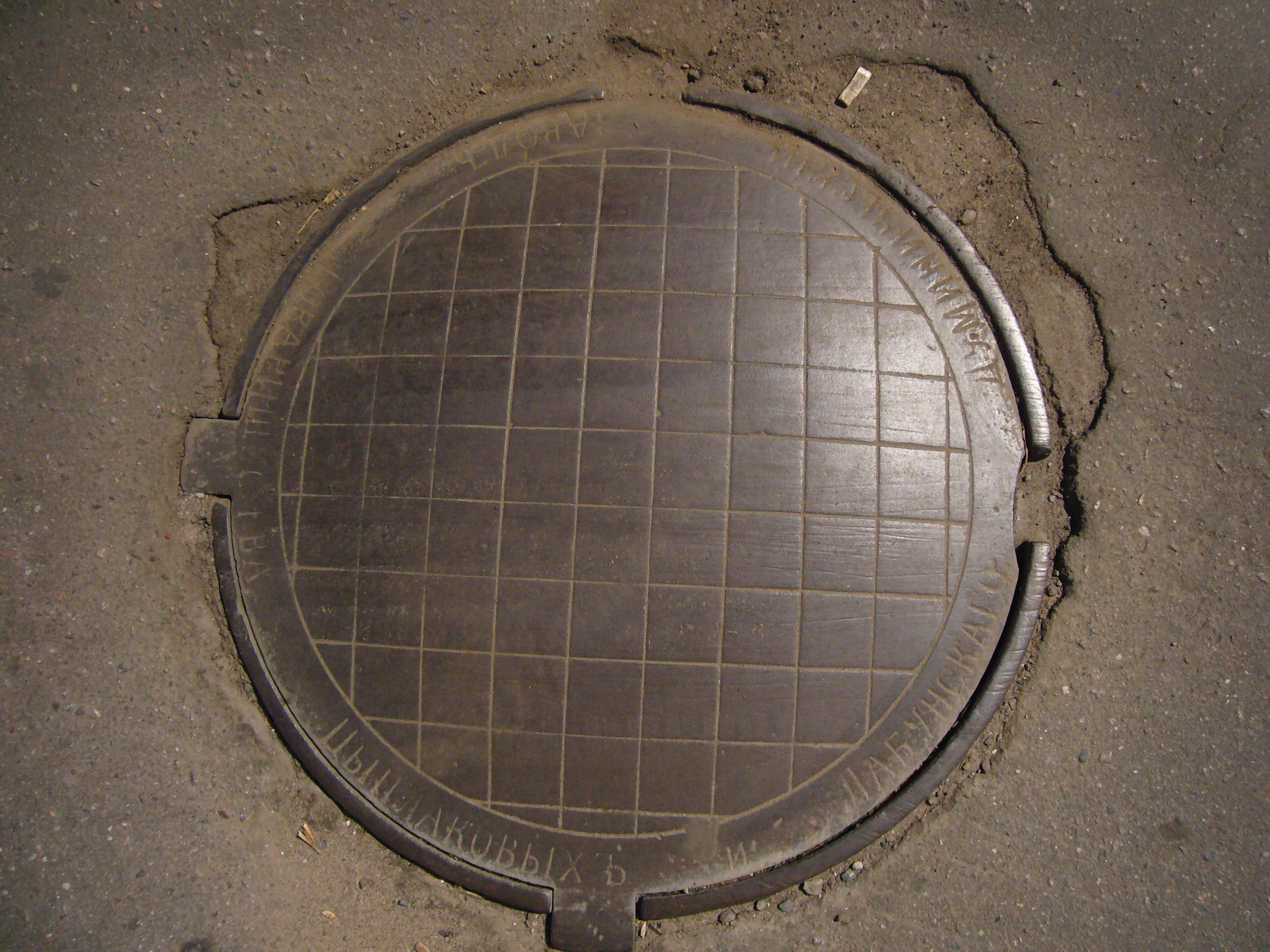 Old manhole cover between Mokhovaya Street and Nikitsky Pereulok in Moscow, Russia, early 20th century.